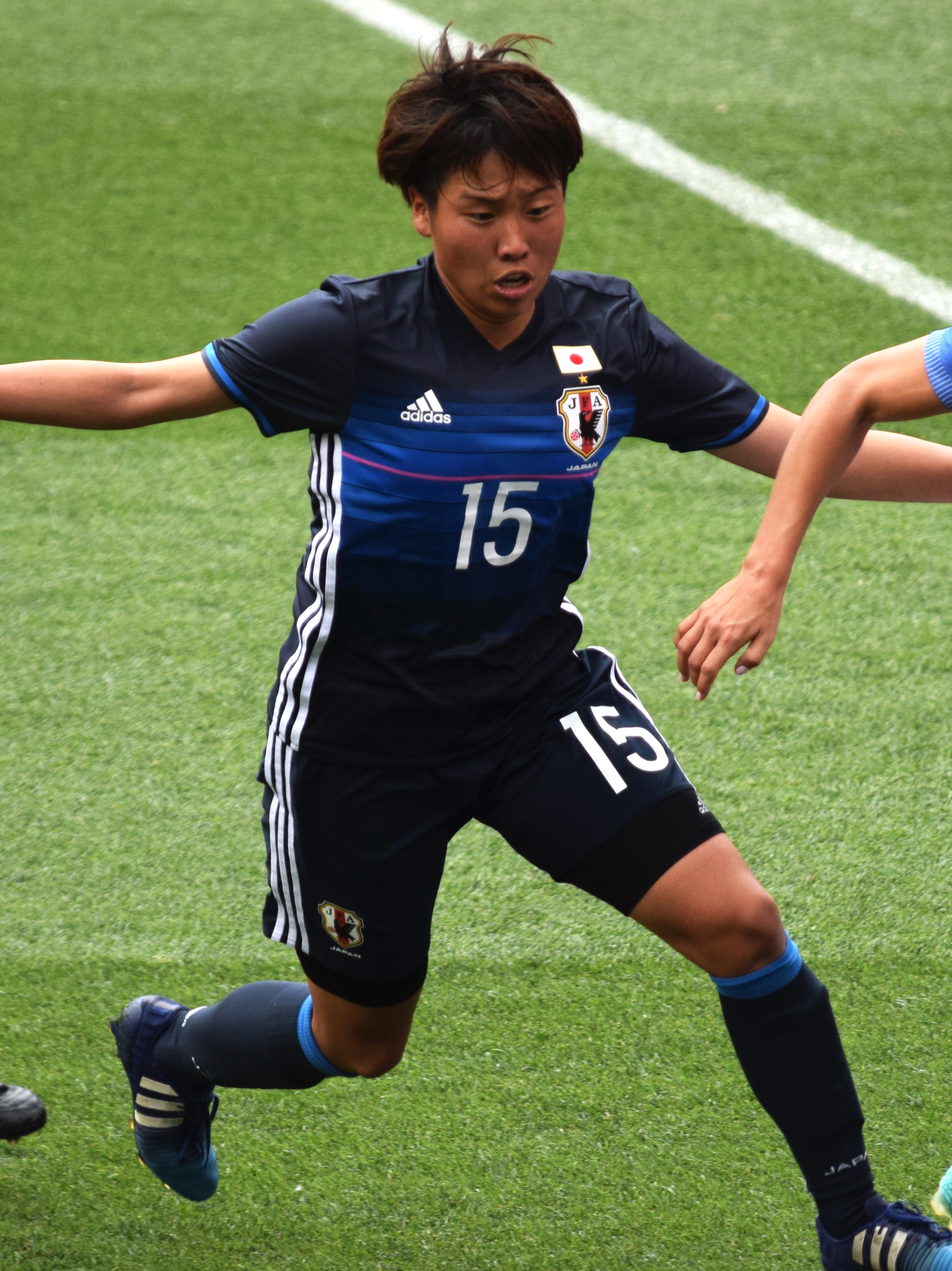 Alex Morgan at a match against Japan in Cleveland on June 5, 2016